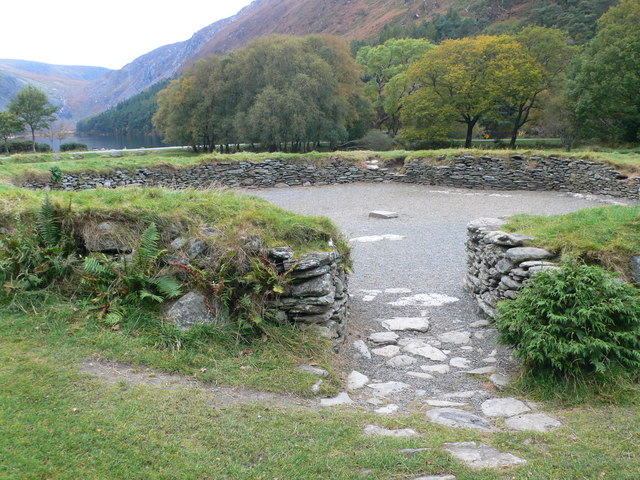 Caher, Glendalough This is a Caher, a stone walled circular enclosure between the two lakes at Glendalough. It is 20 metres in diameter and of unknown date.